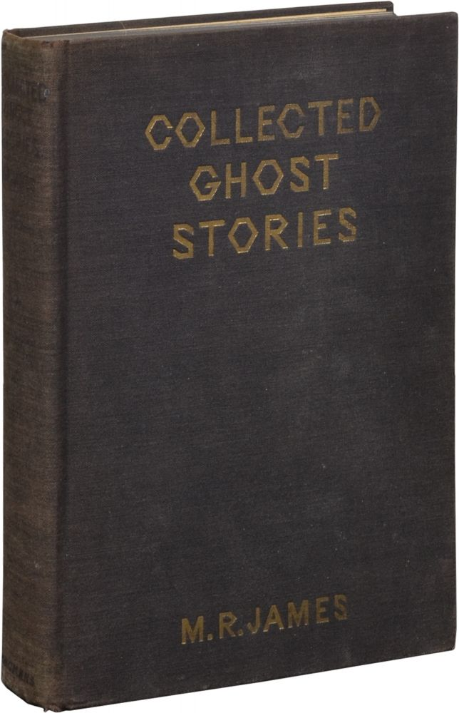 1st edition